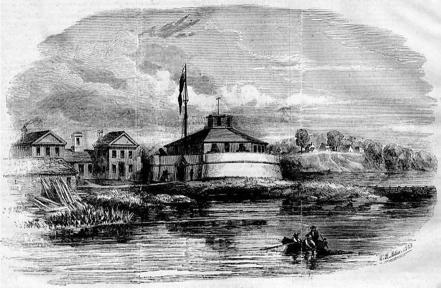 The [United States] Naval Academy -- Side View, a wood engraving after a drawing by W. R. Miller (Miller, William Rickarby, 1818-1893), published in Illustrated News, New York, New York. This shows the U.S. Naval Academy at Fort Severn in Annapolis, Maryland.